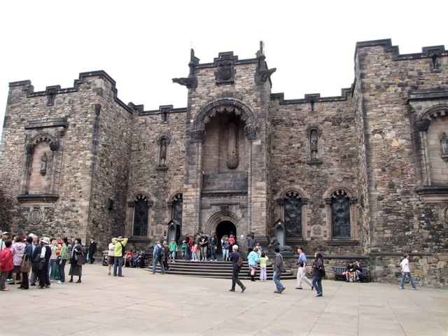 Edinburgh Castle, Edinburgh South wall and entrance to the Edinburgh Castle War Memorial.